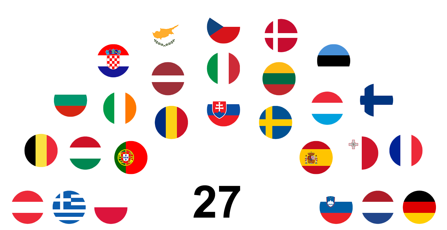 The structure of the Council of the European Union as of 1 February 2020.